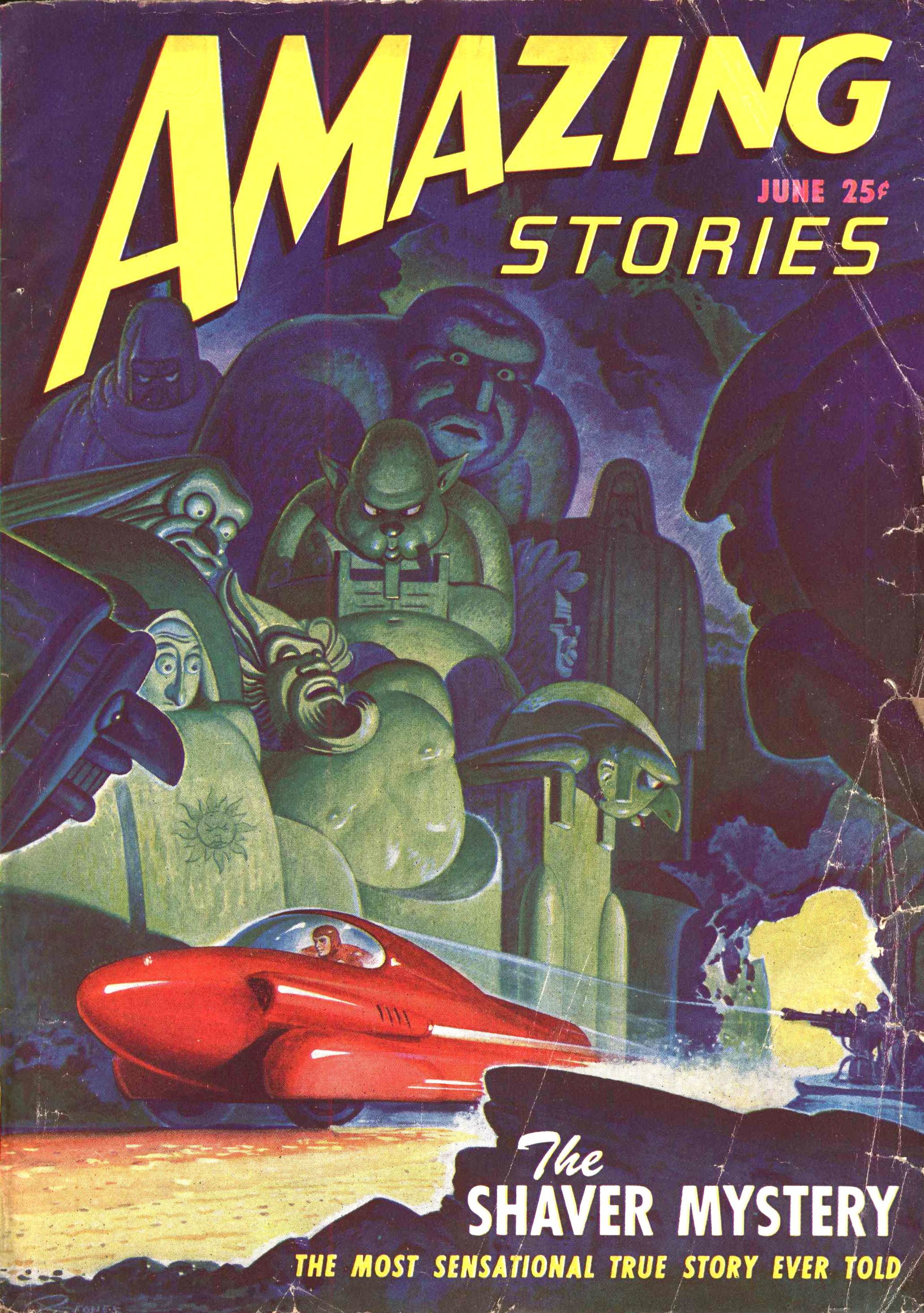 Amazing Stories, June 1947, Volume 21, Number 6 Ziff-Davis Publishing Company. Cover art by Robert Gibson Jones. Source: Cover scanned by User:Hoblok and uploaded in August 2006. Works copyrighted before 1964 had to have the copyright renewed sometime in the 28th year. If the copyright was not renewed the work is in the public domain. It is best to search 6 months before and after the required year. Some magazines are published the month before the cover date and some registrations may be delayed for a few months. This 1947 issue of Amazing Stories would have to be renewed in 1974. Online page scans of the Catalog of Copyright Entries, published by the US Copyright Office can be found here. The search of the Renewals for Periodicals for 1973, 1974 and 1975 show no renewal entries for Amazing Stories. Ziff-Davis Publishing owned Amazing Stories in 1947 and Ultimate Publishing Company owned it from 1965 to 1982. The copyright on the magazine was not renewed and it is in the public domain.